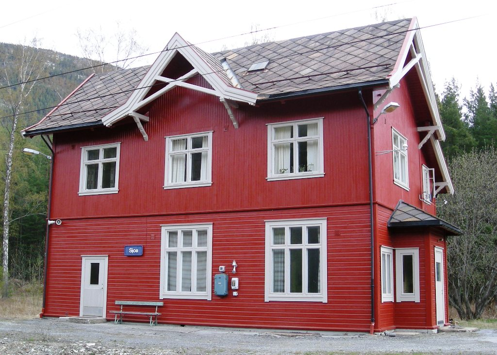 Sjoa station on the Dovre line